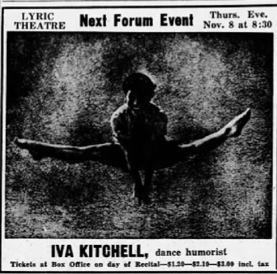 Lyric Theater advertisement for a show featuring dance humorist Iva Kitchell - Allentown PA